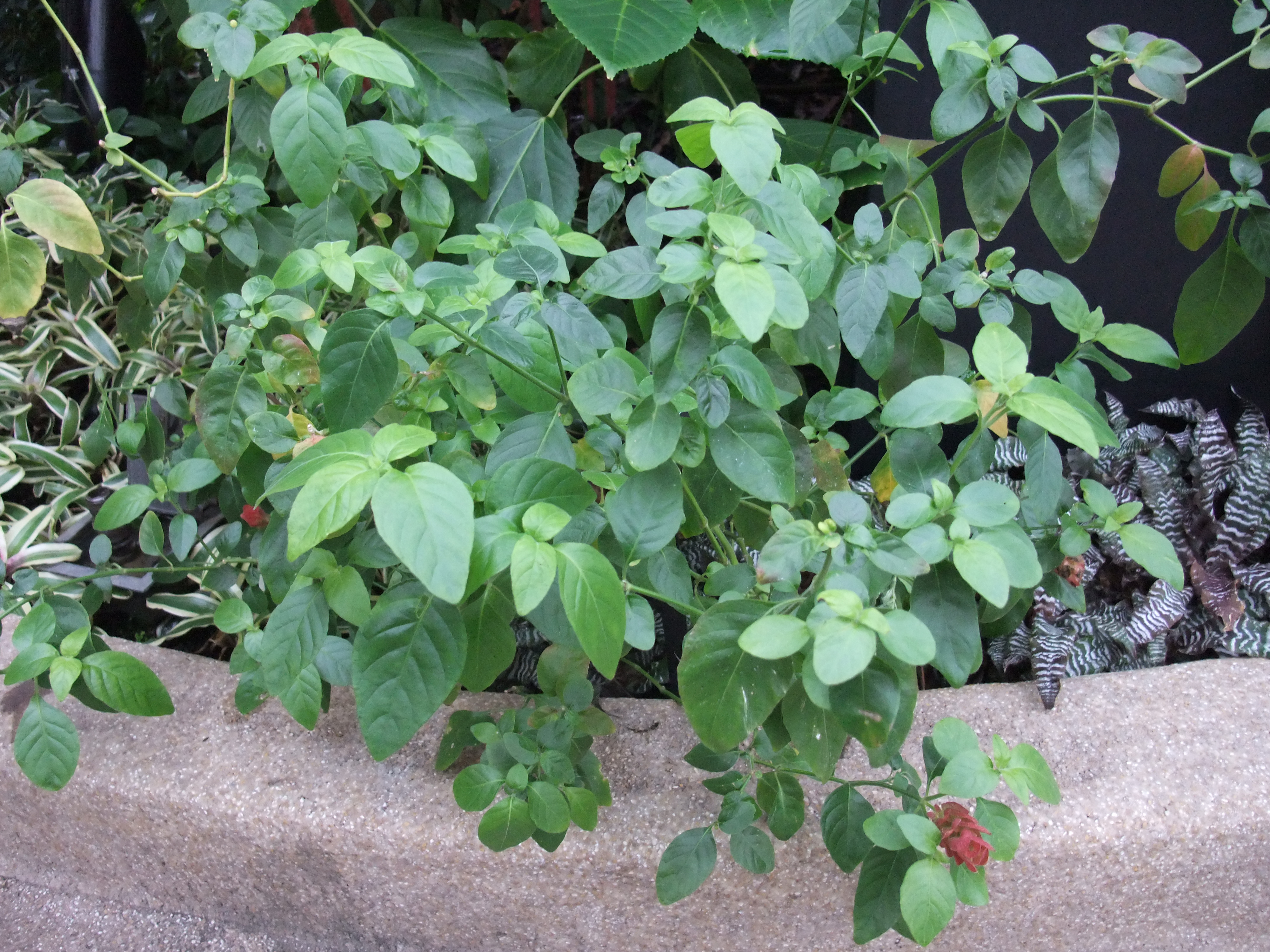 A photograph of Justicia brandegeana.